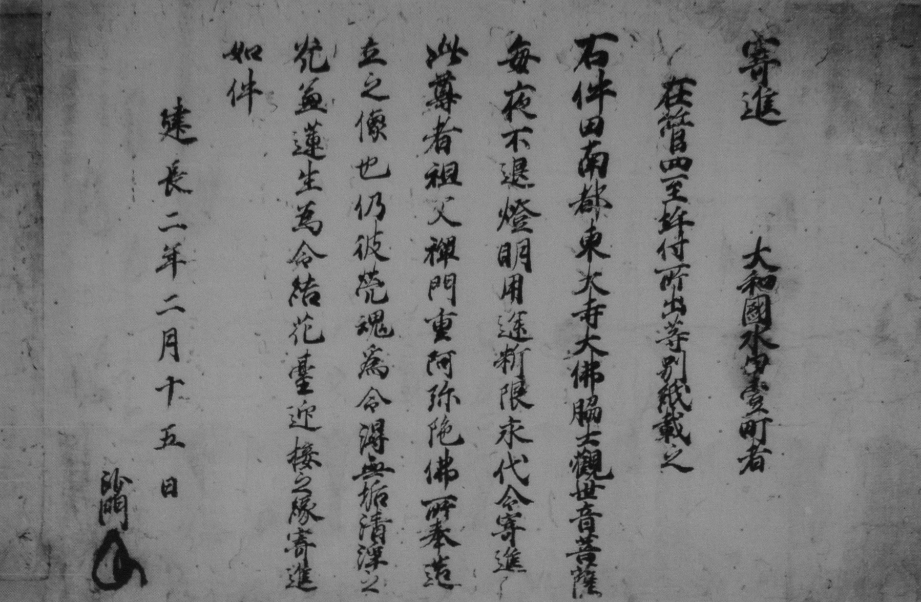 1250, Todaiji, Nara, Japan